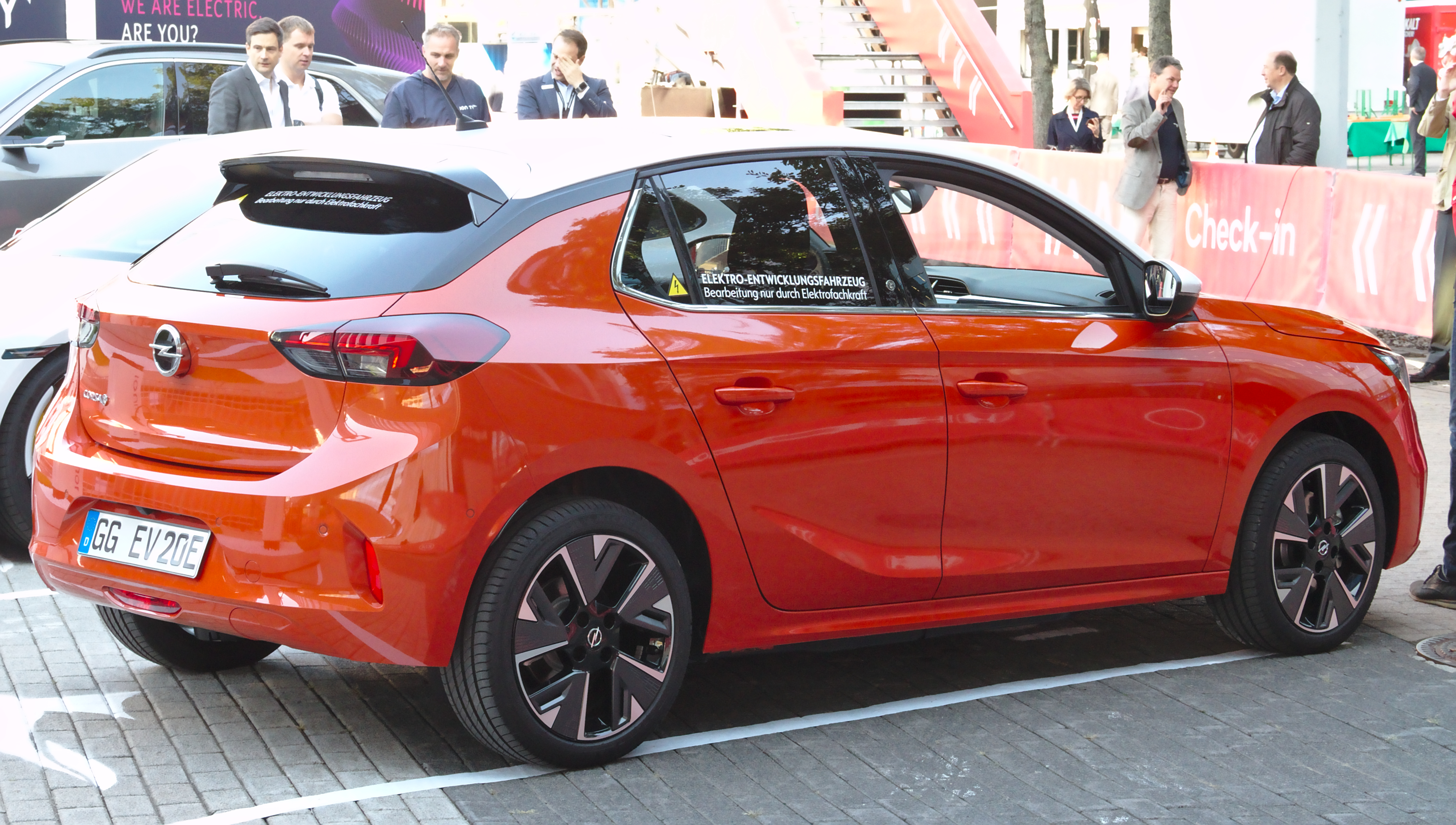 Opel_Corsa-e at IAA 2019